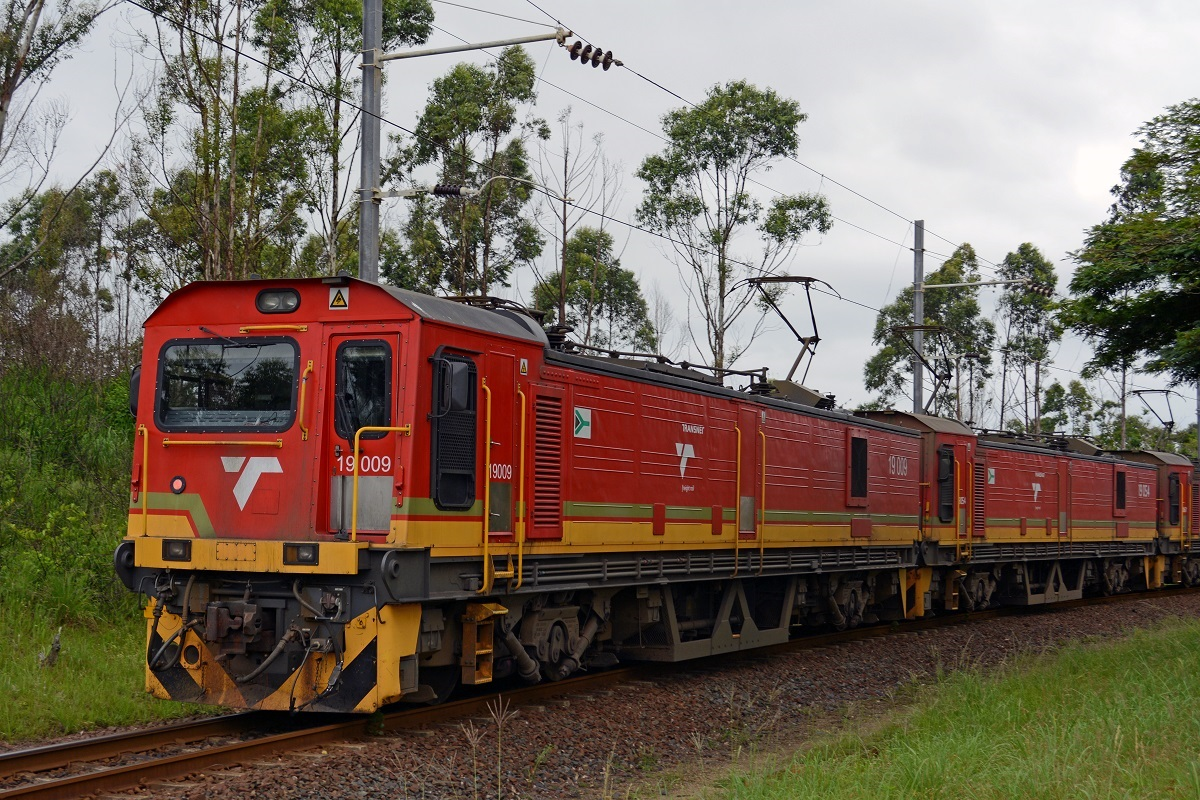 Class 19Es (19 009 / 19 054 / 19 067) at the Richards Bay Locomotive Depot.